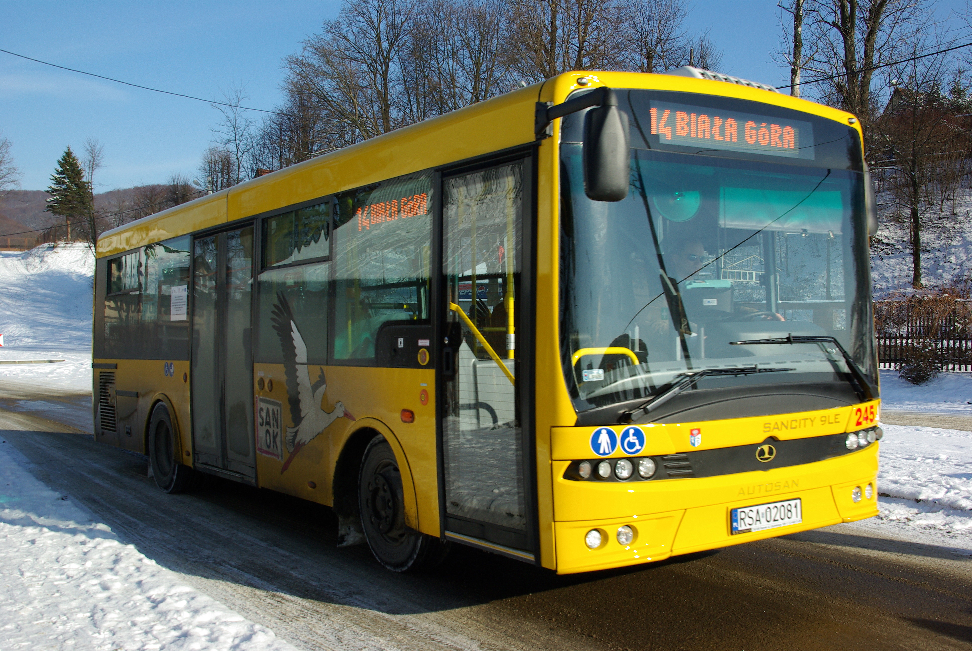 Autosan Sancity 9LE bus (#245) in Sanok, Poland. Built 2010, MKS Sanok operator.